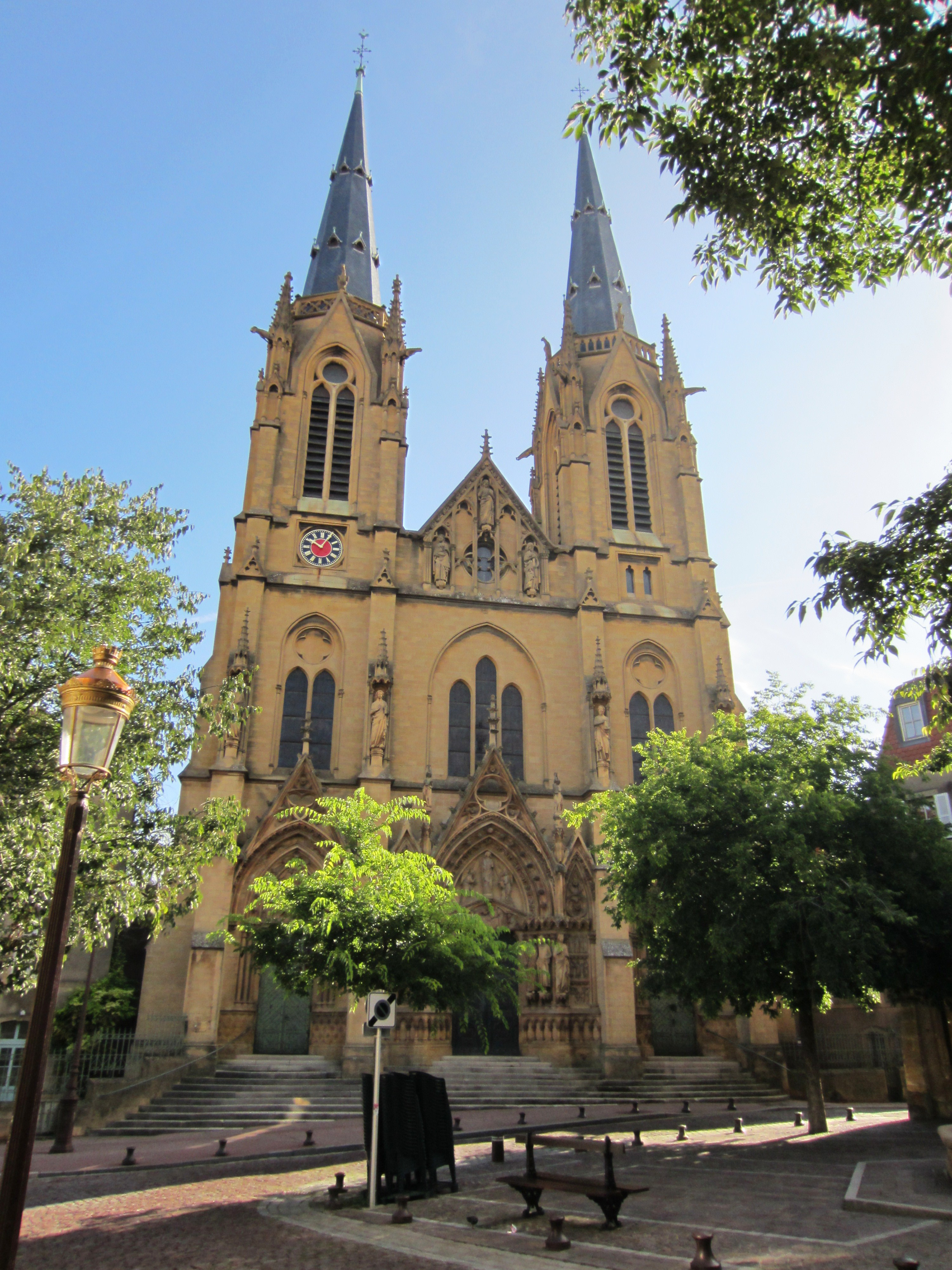 Description eglise Sainte Segolene Metz Date10 September 2011Sourcemon appareil photoAuthorAimelaimePermission (Reusing this file) eglise Sainte Segolene Metz